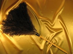 23" Ostrich Black Feather Duster